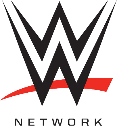 WWE Network logo